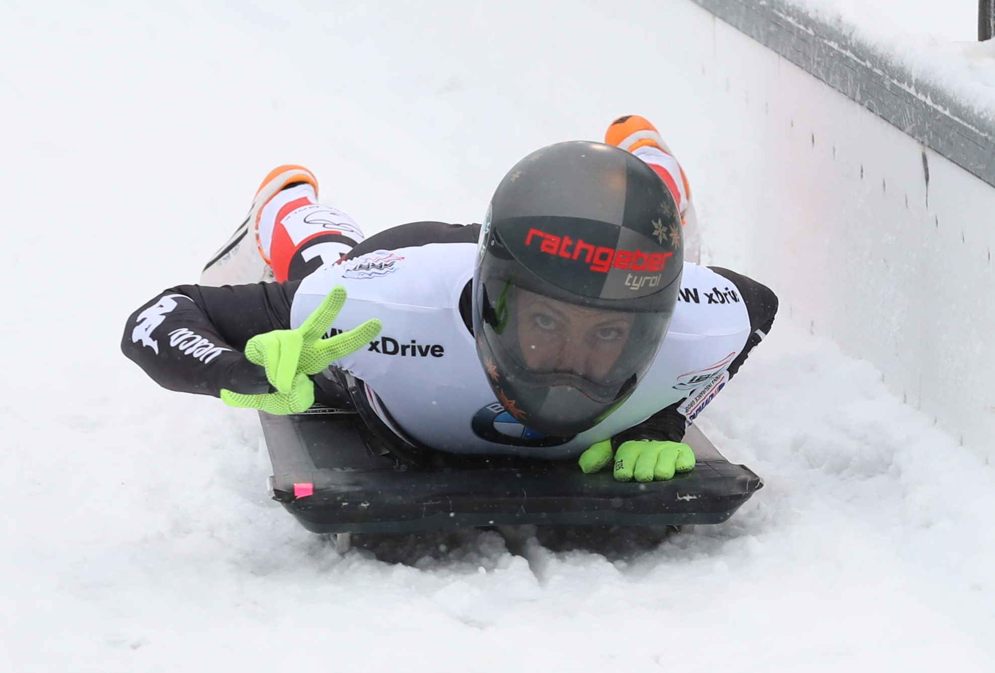 Women's World Cup race at the 2018/19 Skeleton World Cup in Altenberg